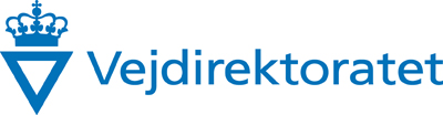 Logo of the Danish Road Directorate